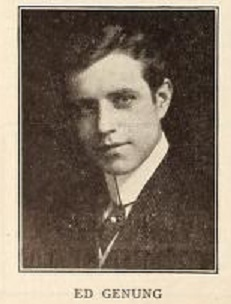 American silent film actor Ed Genung signed by the Thanhouser company - The Moving Pictures News (June 1911)